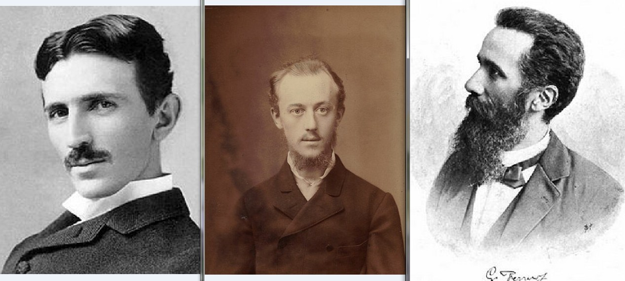 The inventors of the asynchroneous machines - Nikola Tesla, Mikhail Dolivo-Dobrovolsky and Galileo Ferraris